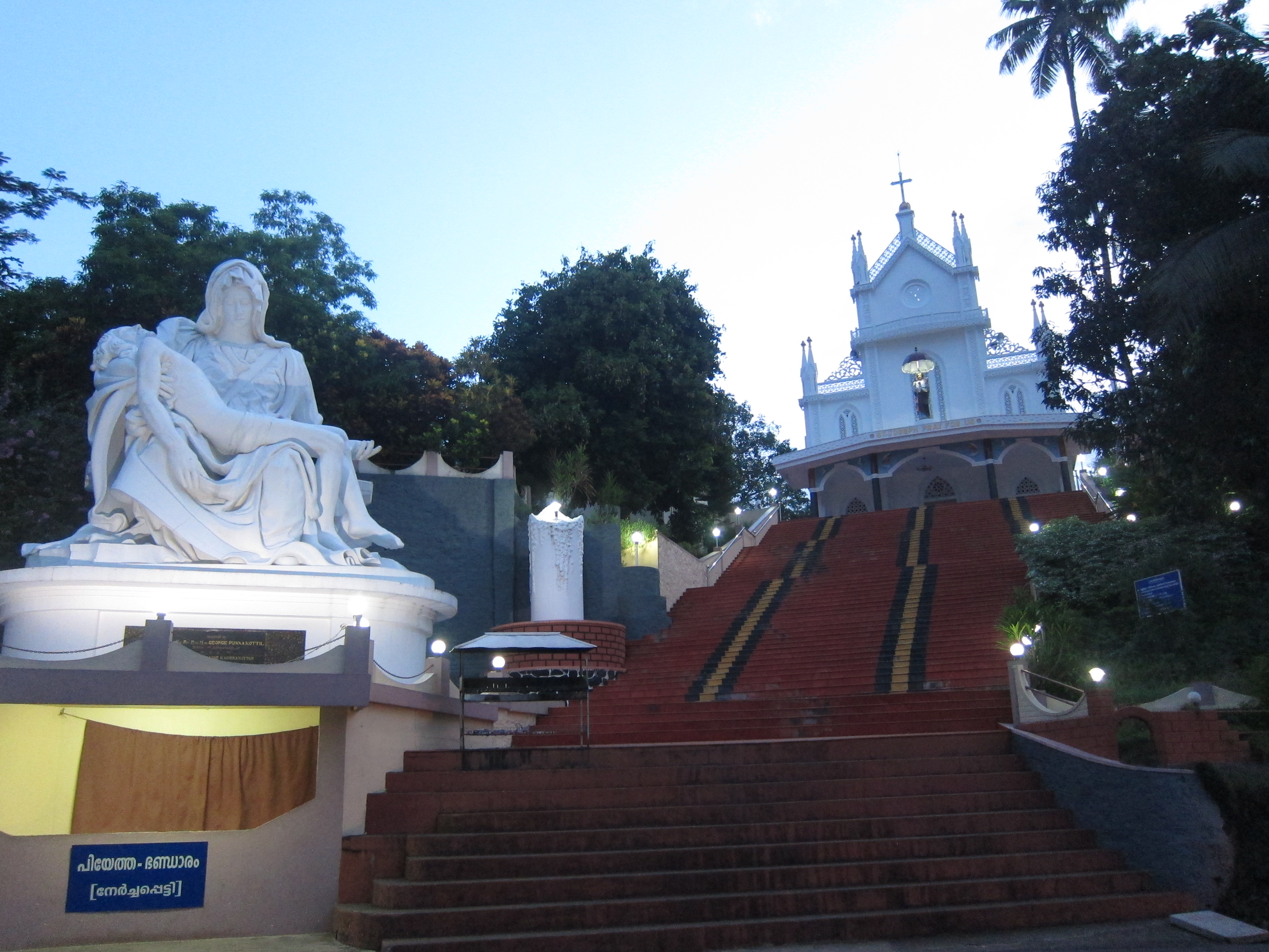 Meenkunnam Church, St: Joseph's Syro-Malabar Church, Muvatupuzha to Kottayam Road (M.C Road). Between Muvatupuzha and Koothatukulam. മീങ്കുന്നം പള്ളി, സെന്റ് ജോസഫ്സ് സീറോ മലബാർ പള്ളി, മുവാറ്റുപുഴ കോട്ടയം വഴിയിൽ (എം.സി റോഡ്). മുവാറ്റുപുഴയ്ക്കും കൂത്താട്ടുകുളത്തിനും ഇടയിലായി.